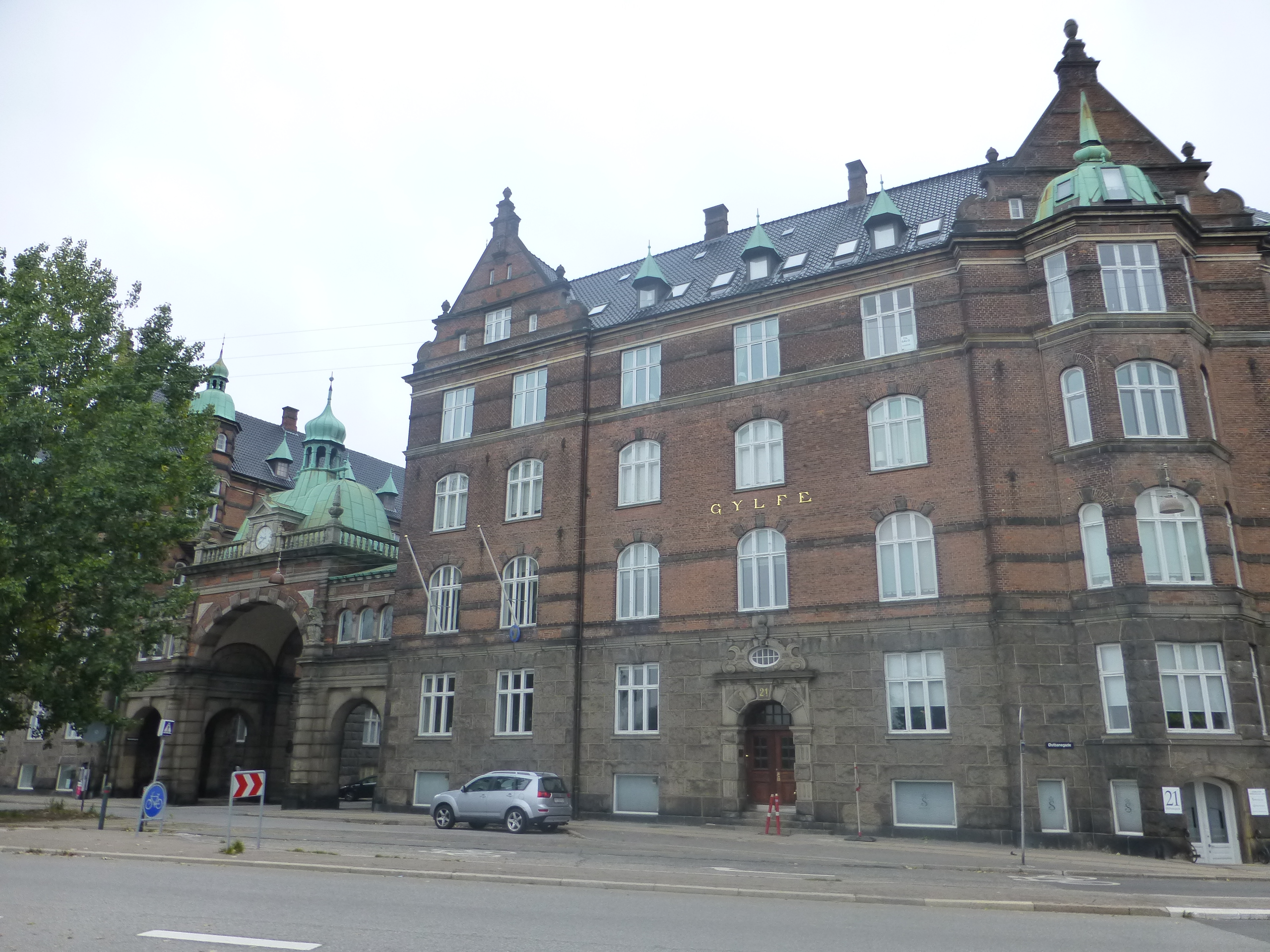 The embassy of Ireland in Østerbro in Copenhagen.